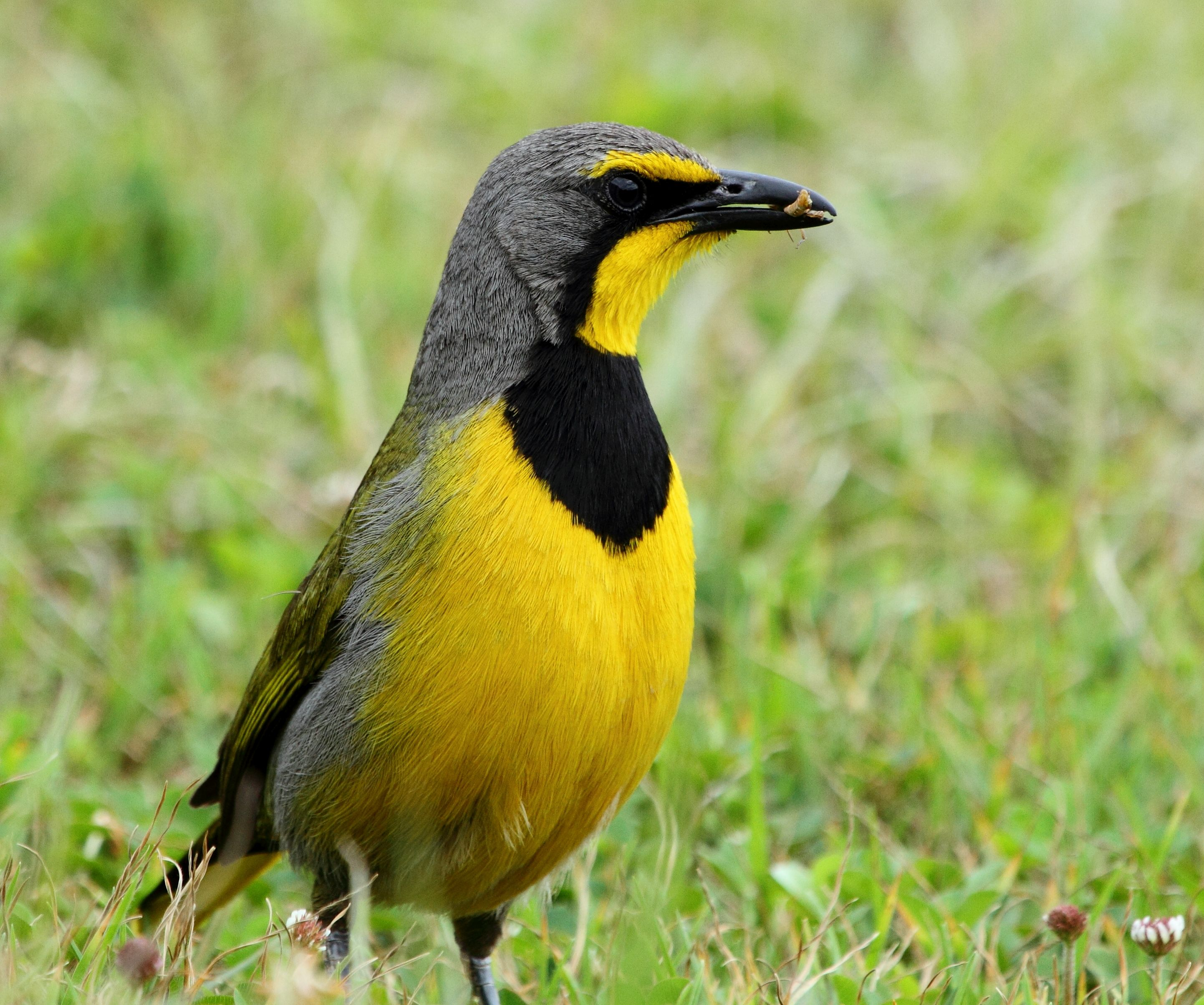 Bokmakierie (Telophorus zeylonus); Fairways Resort, KwaZulu-Natal Drakensberg, South Africa.